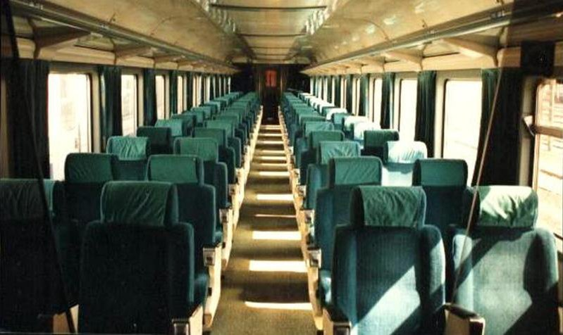 Interior of Renfe A12t-9006 coach. Barcelona